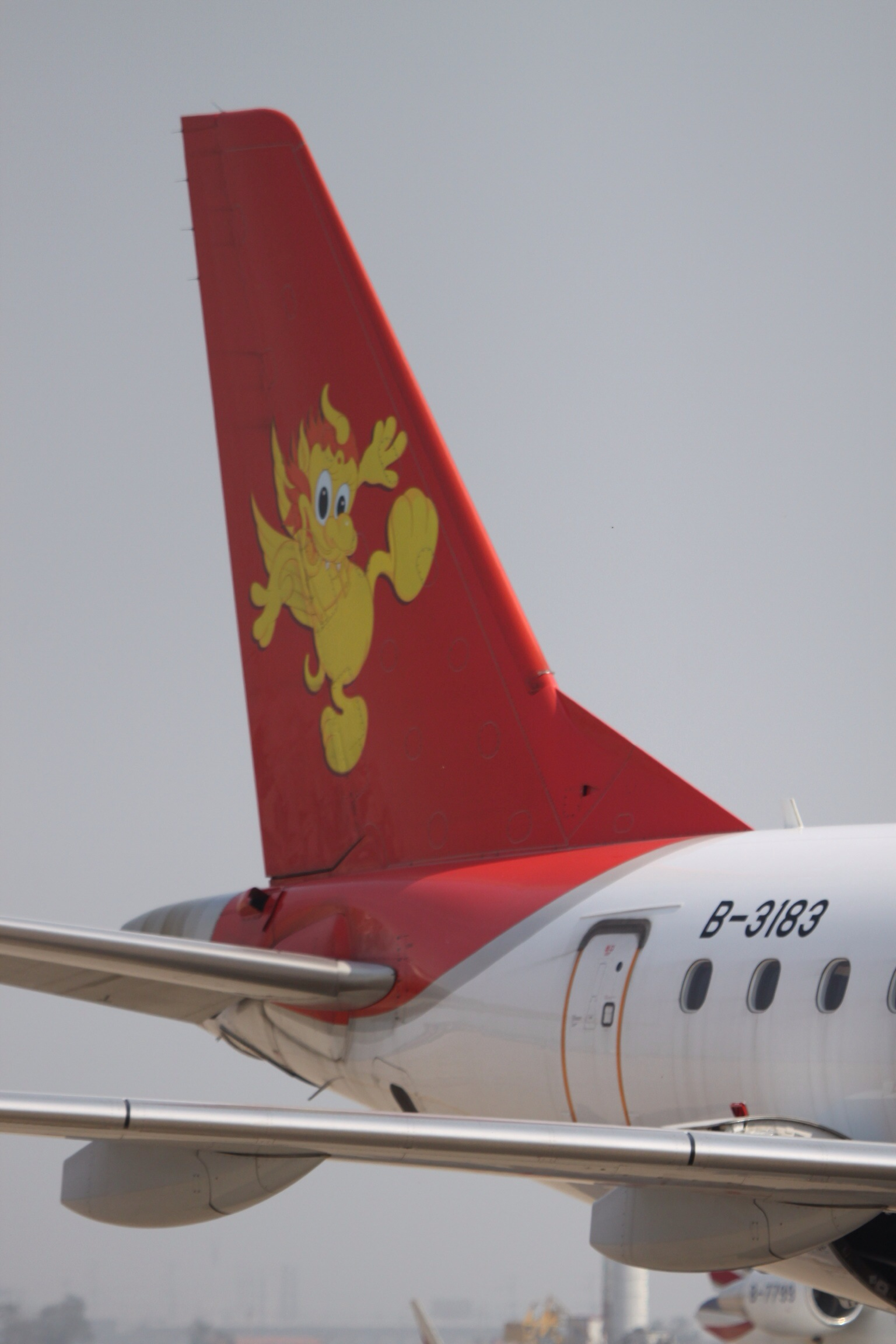 At Tianjin Binhai International